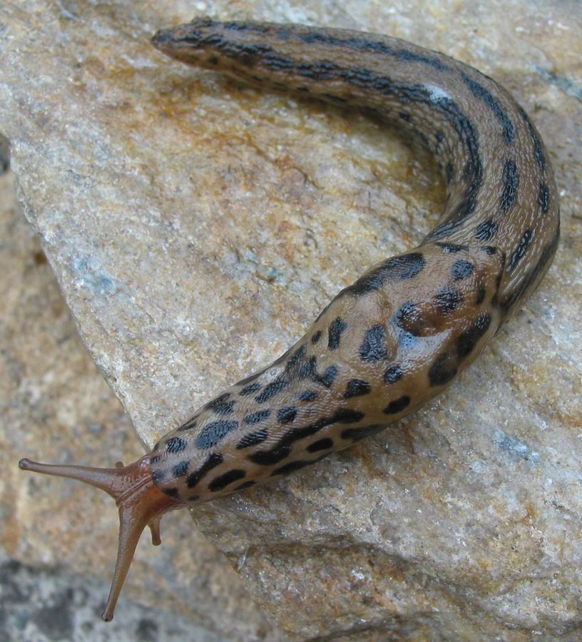 Photo of Limax maximus from Olomouc, the Czech Republic, N:49˚33’37,05”, E:17˚14’14,86”.